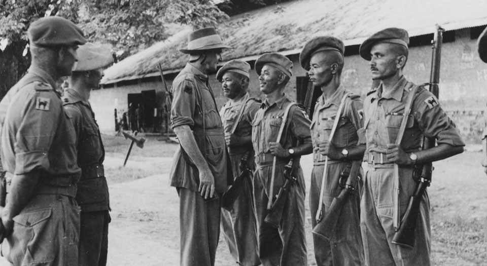 Messervy, the commanding officer of IV Indian Corps in Burma, talks to a sepoy from 17th Indian Infantry Division, sometimes known as 'The Black Cat Division' due to its formation badge, visible on the shoulders of the men on parade.